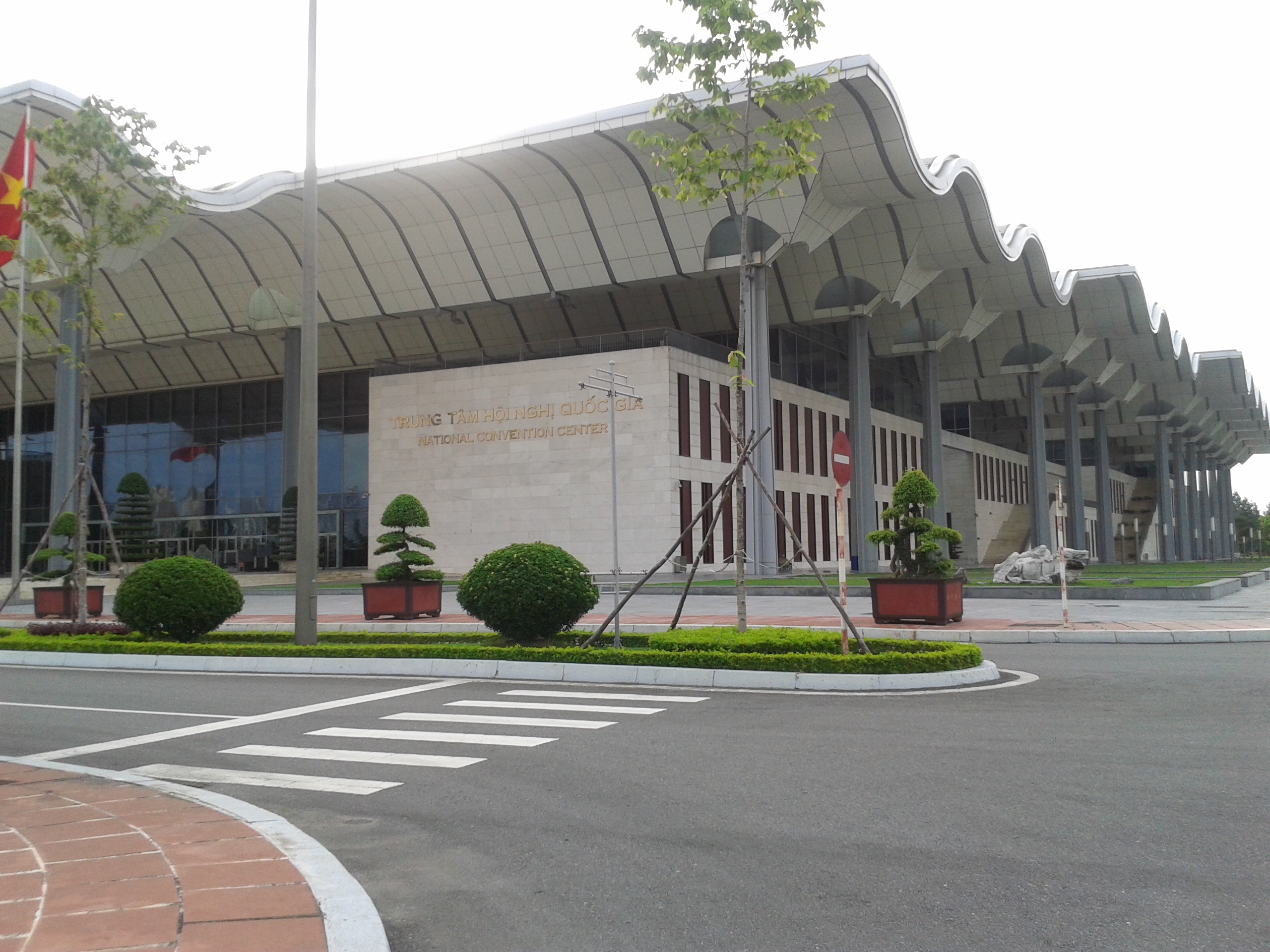 Vietnam National Convention Center, Hanoi. Photo taken one day before the opening ceremony of the 46th International Chemistry Olympiad organized here.